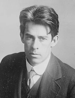 Cropped headshot of Ralph Lyford, conductor from the USA